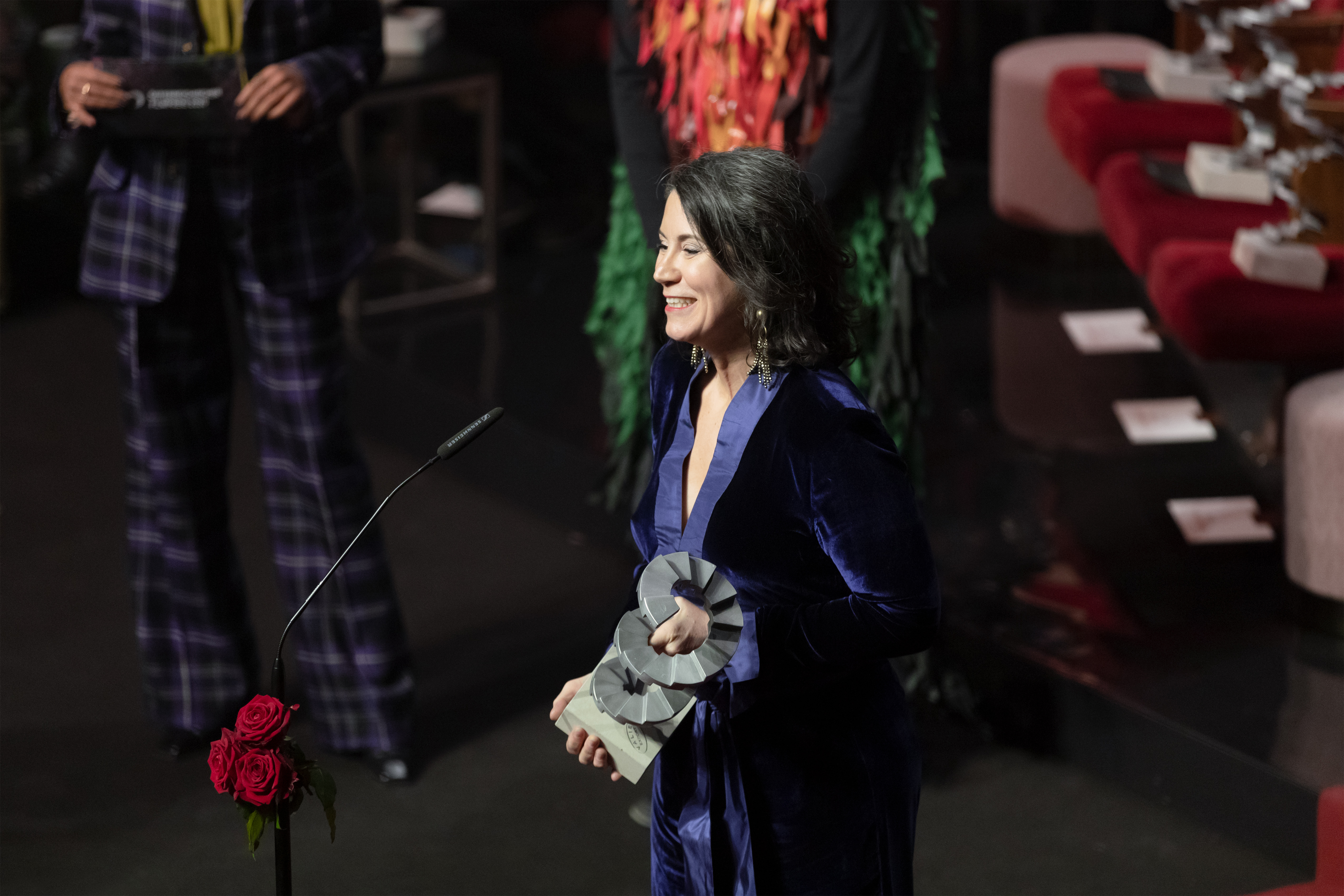 Christine Ludwig (Wie ich lernte, bei mir selbst Kind zu sein) at the award ceremony of the Austrian Film Awards 2020 (Auditorium Grafenegg at Grafenegg Castle, Lower Austria,Austria).